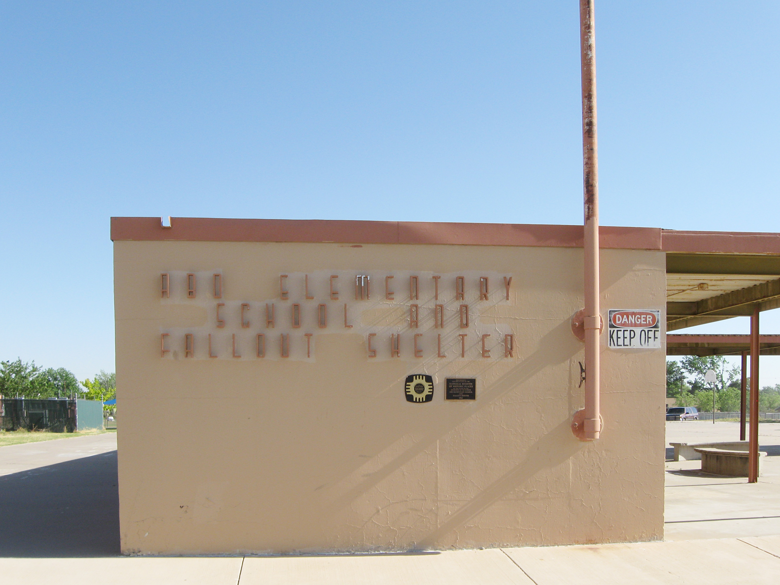 Abo Elementary School and Fallout Shelter, located at 1802 West Centre Avenue in Artesia, New Mexico. This former school was built completely underground. The photo shows a small entrance structure (doors are on the other side). According to the plaques on the front, the school was built in 1962 and is a New Mexico Registered Cultural Property and is on the National Register of Historic Places.